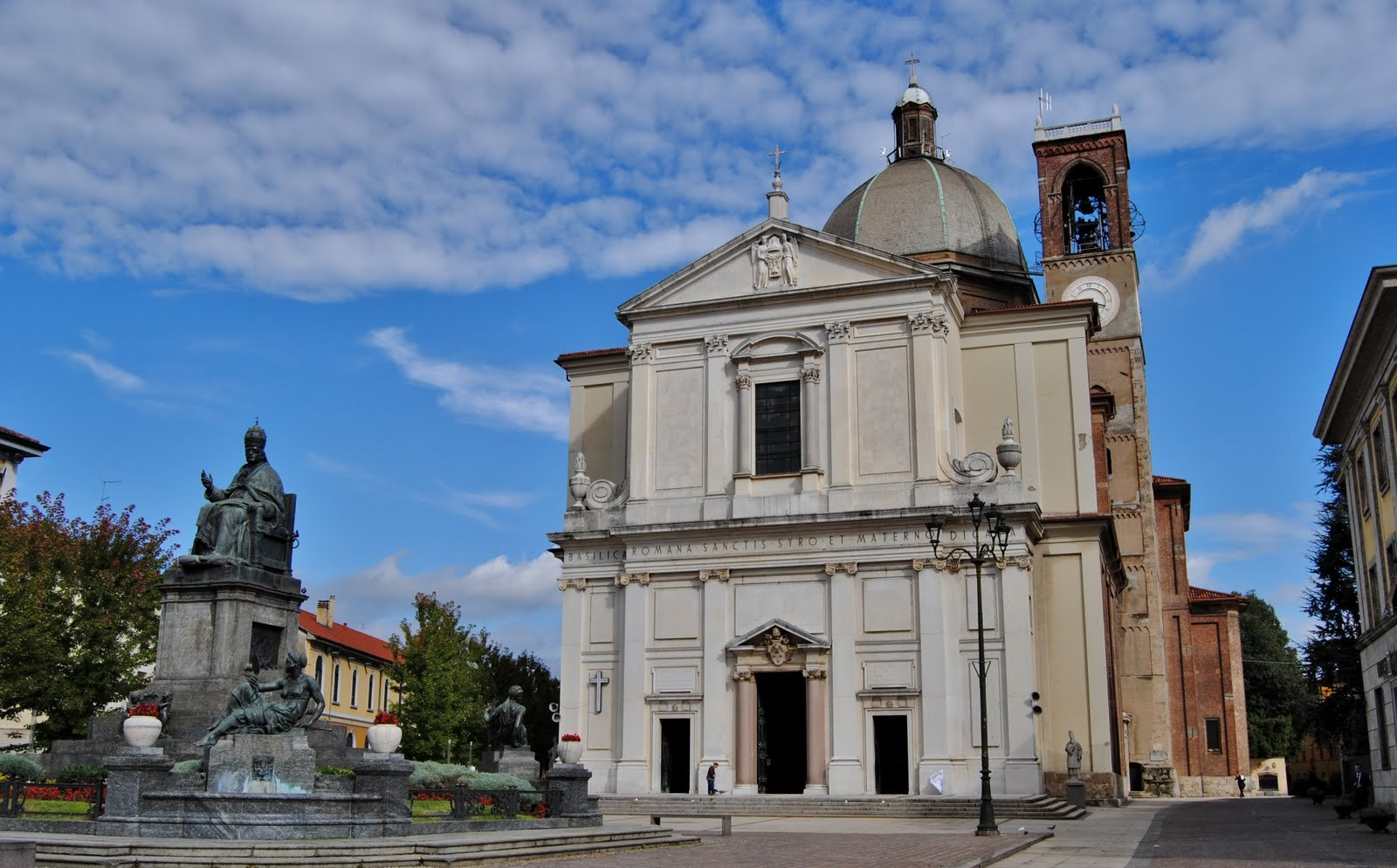 desio basilica san siro e materno